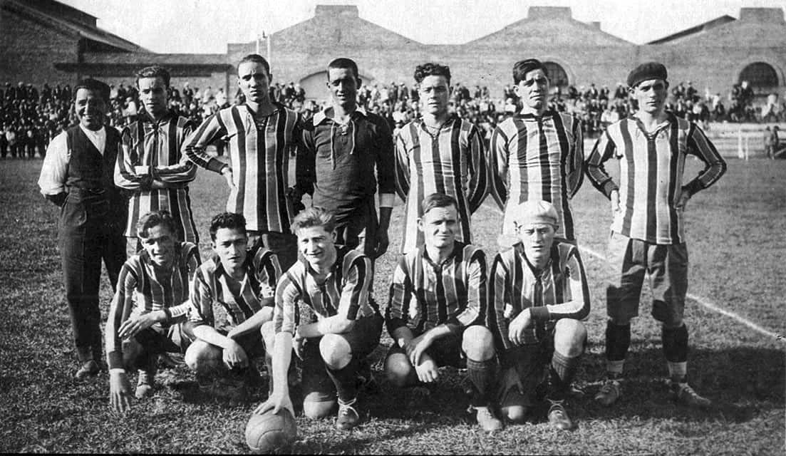 Club Almagro football team.